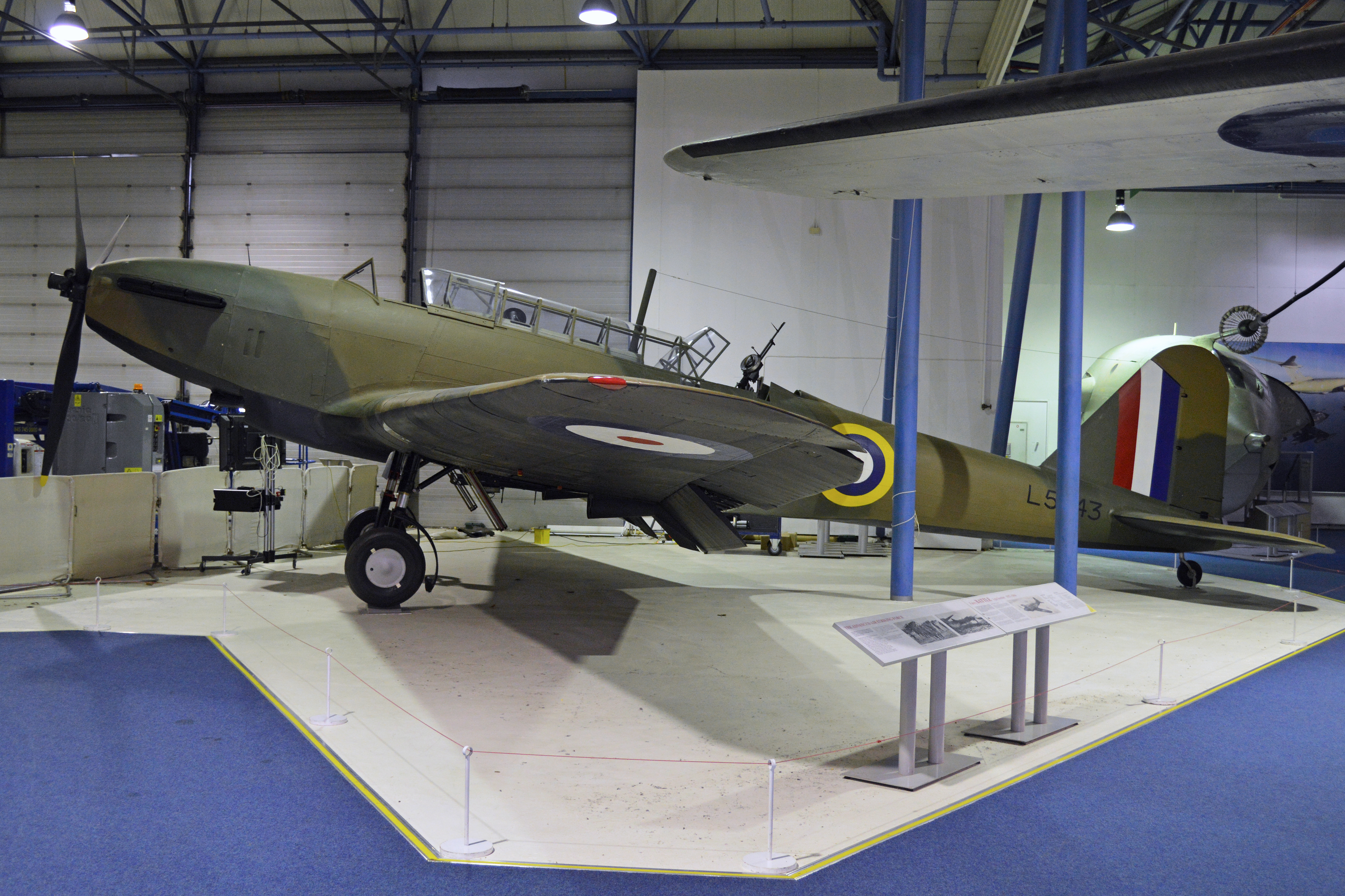 Built 1939. Flew with 98sqn and was operating from Kaldadames, Iceland, when it crash-landed following engine failure in bad weather on Friday 13th September 1940. Remains recovered in 1972 and were joined, in 1977, by remains from L5340 recovered from Canada. Major restoration work began at RAF St Athan in 1983 and completed in 1990, with the aircraft moving to Hendon. Further restoration work was carried out by the Medway Aircraft Preservation Society between 2006 and 2008 and since then she has been on display in the Bomber Command Hall at the RAF Museum, Hendon, London, UK 28th May 2016